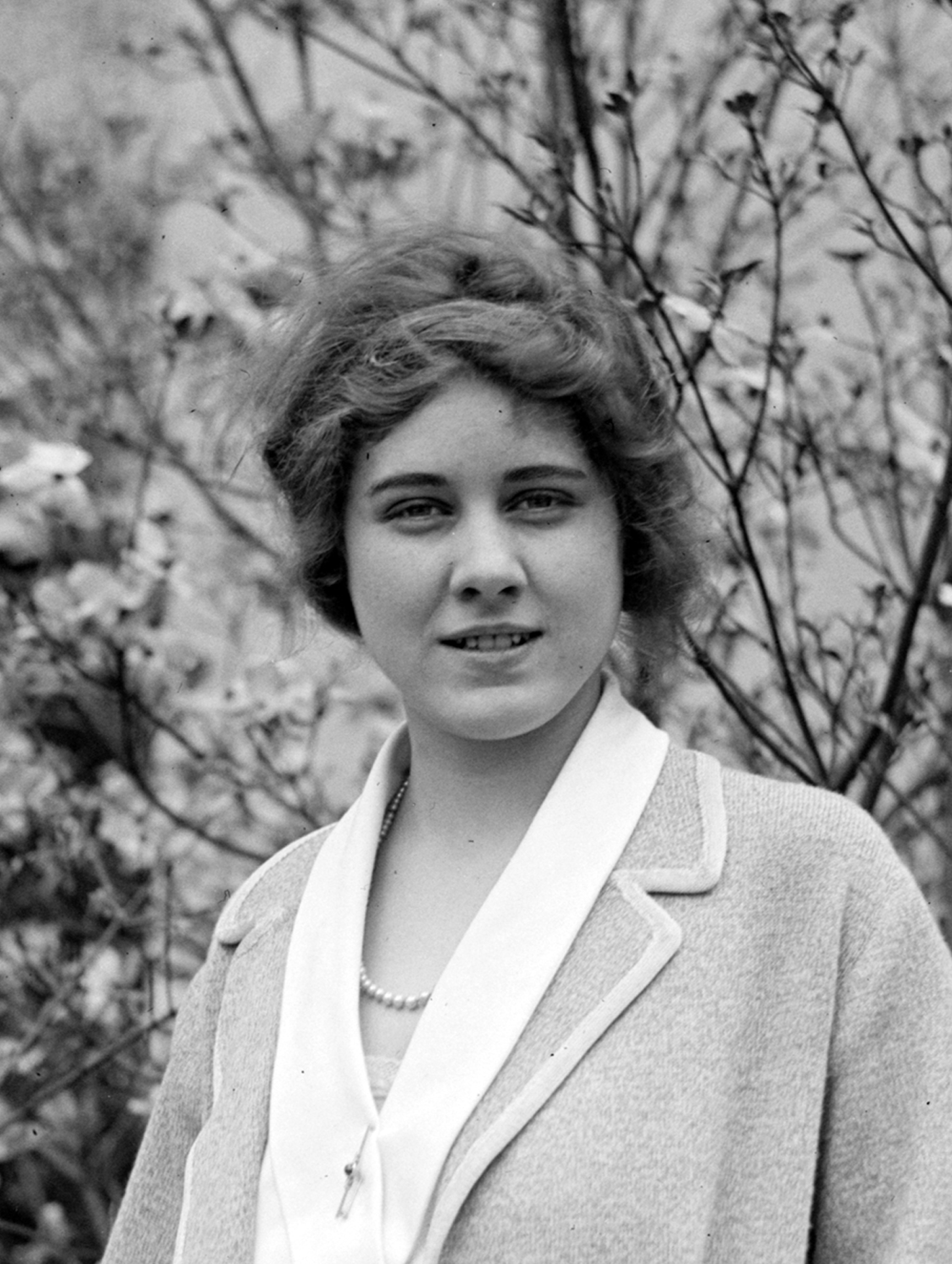 Miss Clare Boothe, April 28, 1923